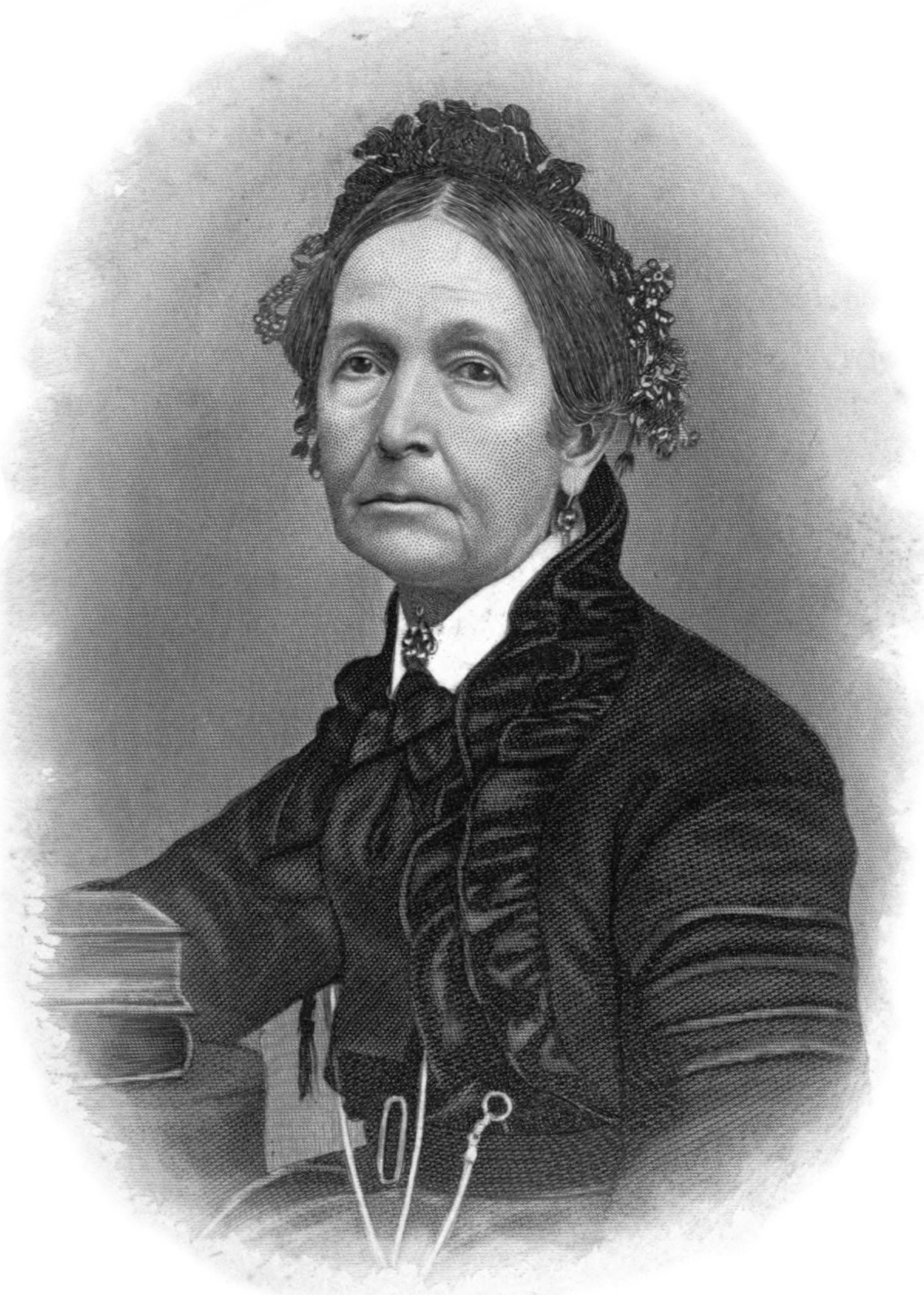 Engraving of Eliza Roxcy Snow Young, the second general president of the Relief of The Church of Jesus Christ of Latter-day Saints (LDS Church). Snow was a wife to Brigham Young, and claimed to be a plural wife of Joseph Smith, Jr.. A renowned poet, Snow chronicled history, celebrated nature and relationships, and expounded scripture and doctrine.